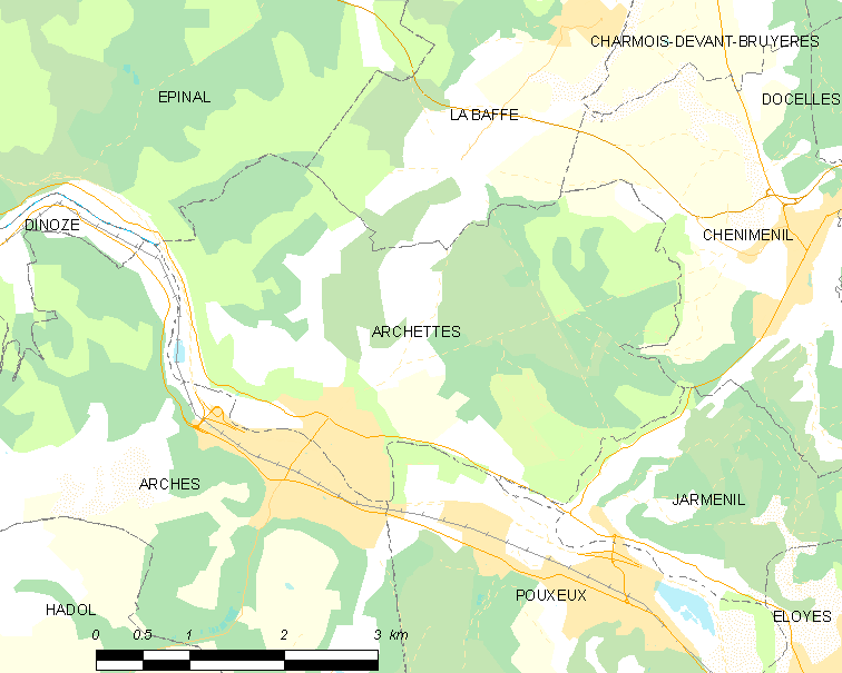 Map of French municipality Archettes